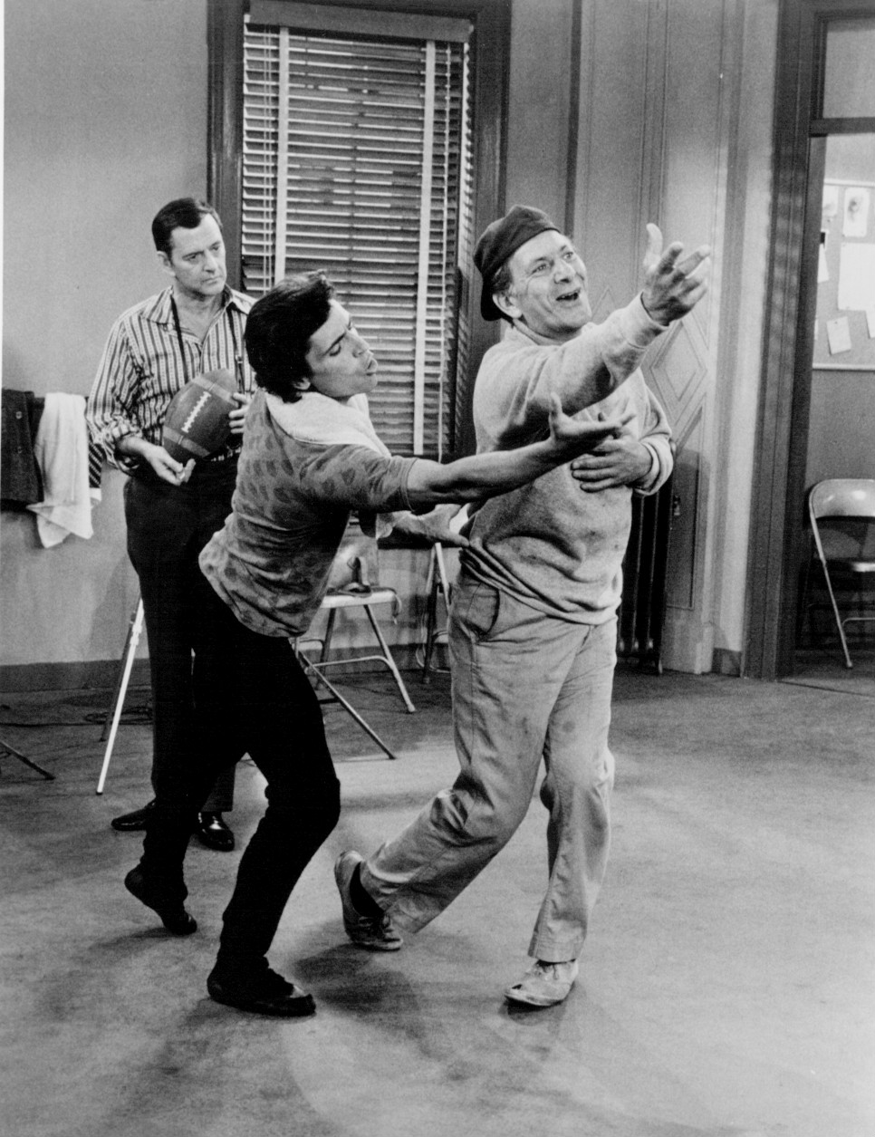 Photo of Jack Klugman, Tony Randall and Edward Villella from the television series The Odd Couple. Oscar gets into the act when Felix fills in for a children's performance of "Swan Lake".